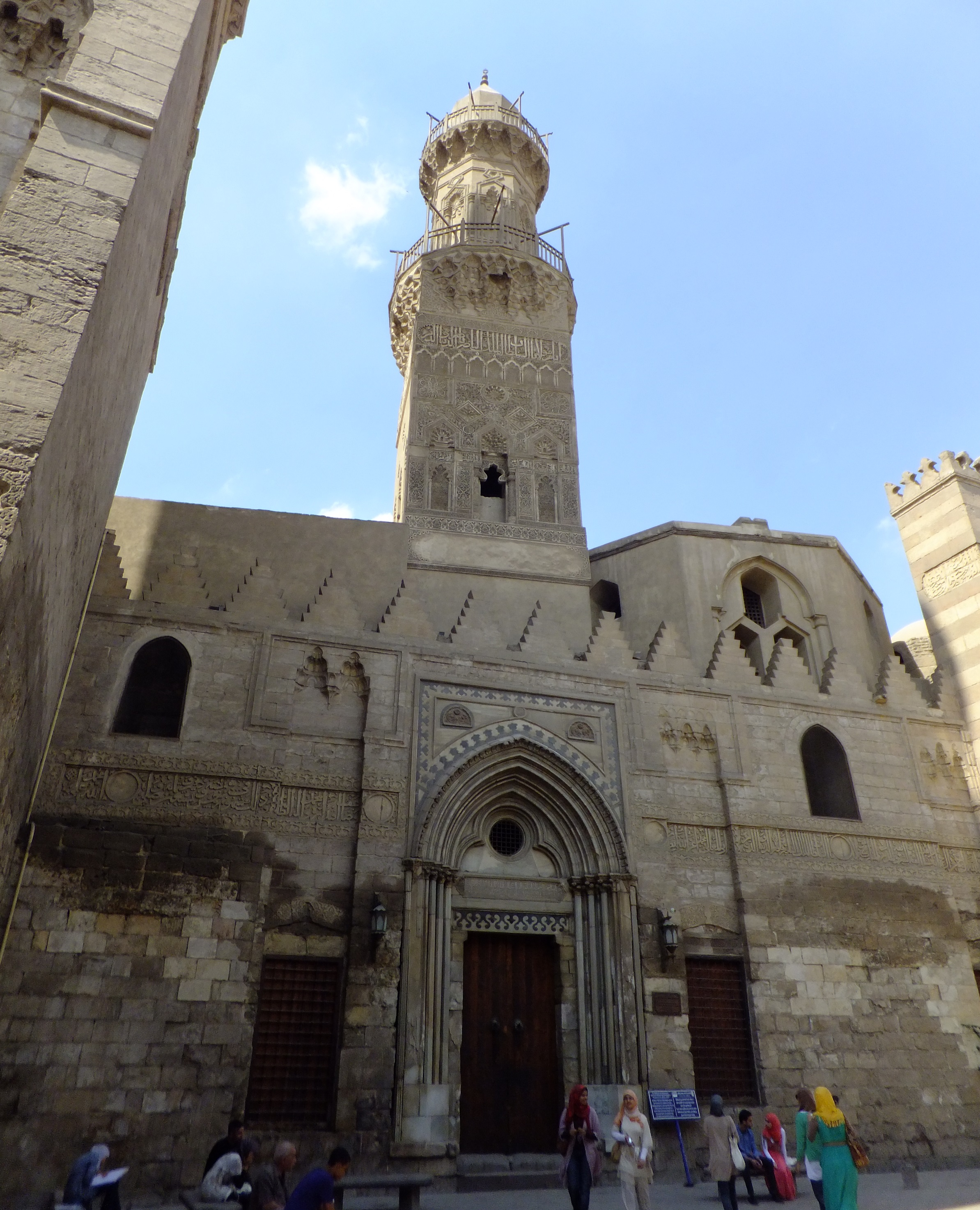 The facade of the Madrasa of al-Nasir Muhammad.